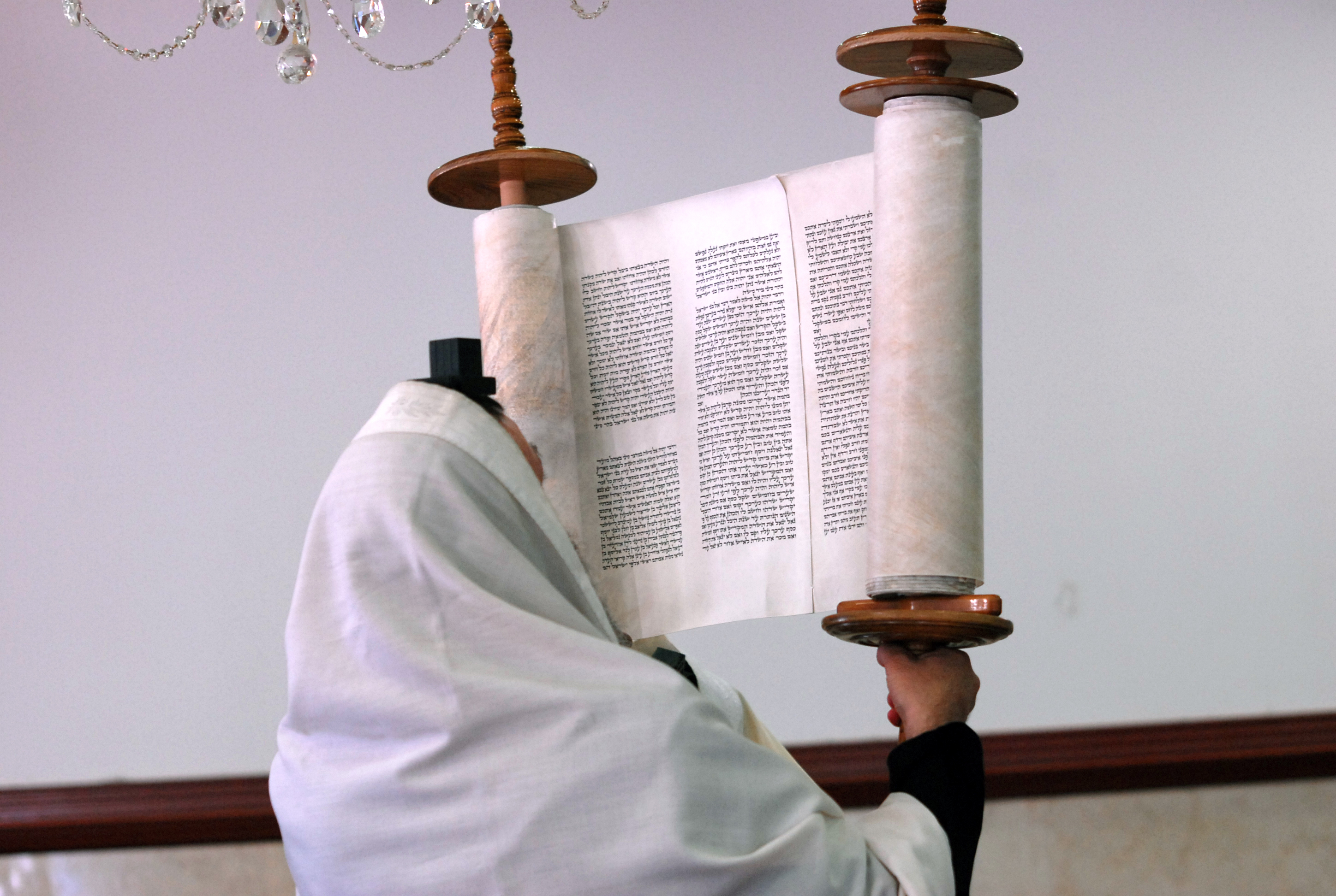 Raising the Sefer Torah